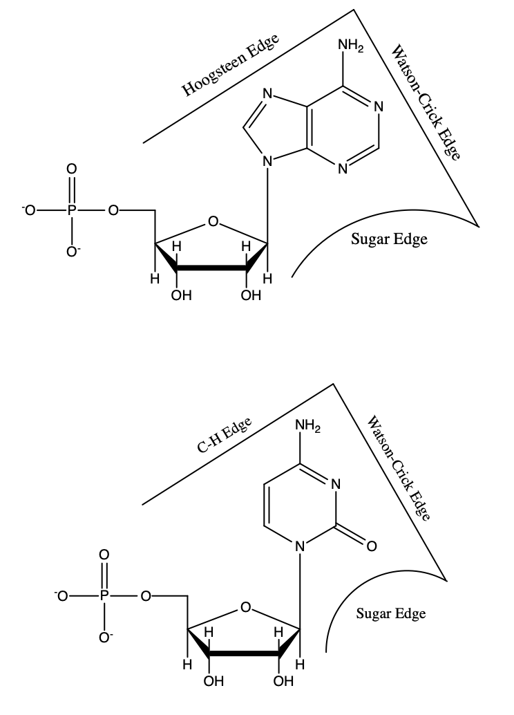 Adenine and Cytosine 3 hydrogen bonding edges